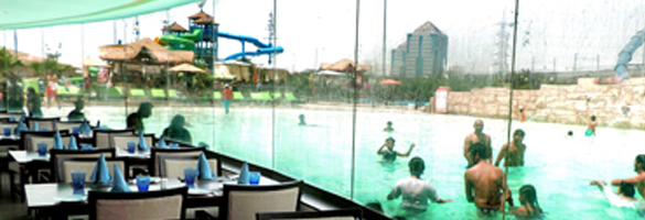 A restro in AppuGhar in wave pool.